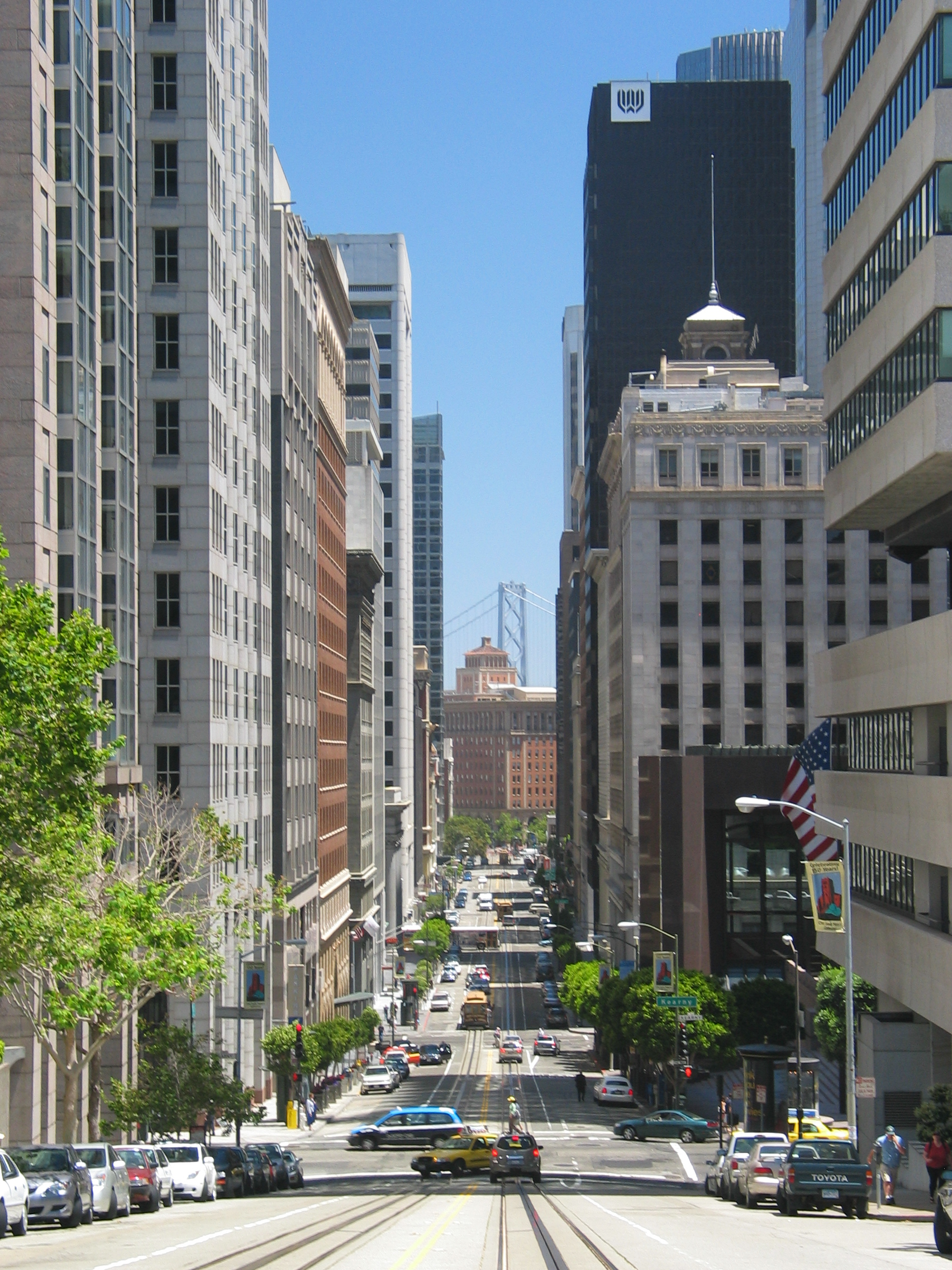 California street with Bay Bridge in the background